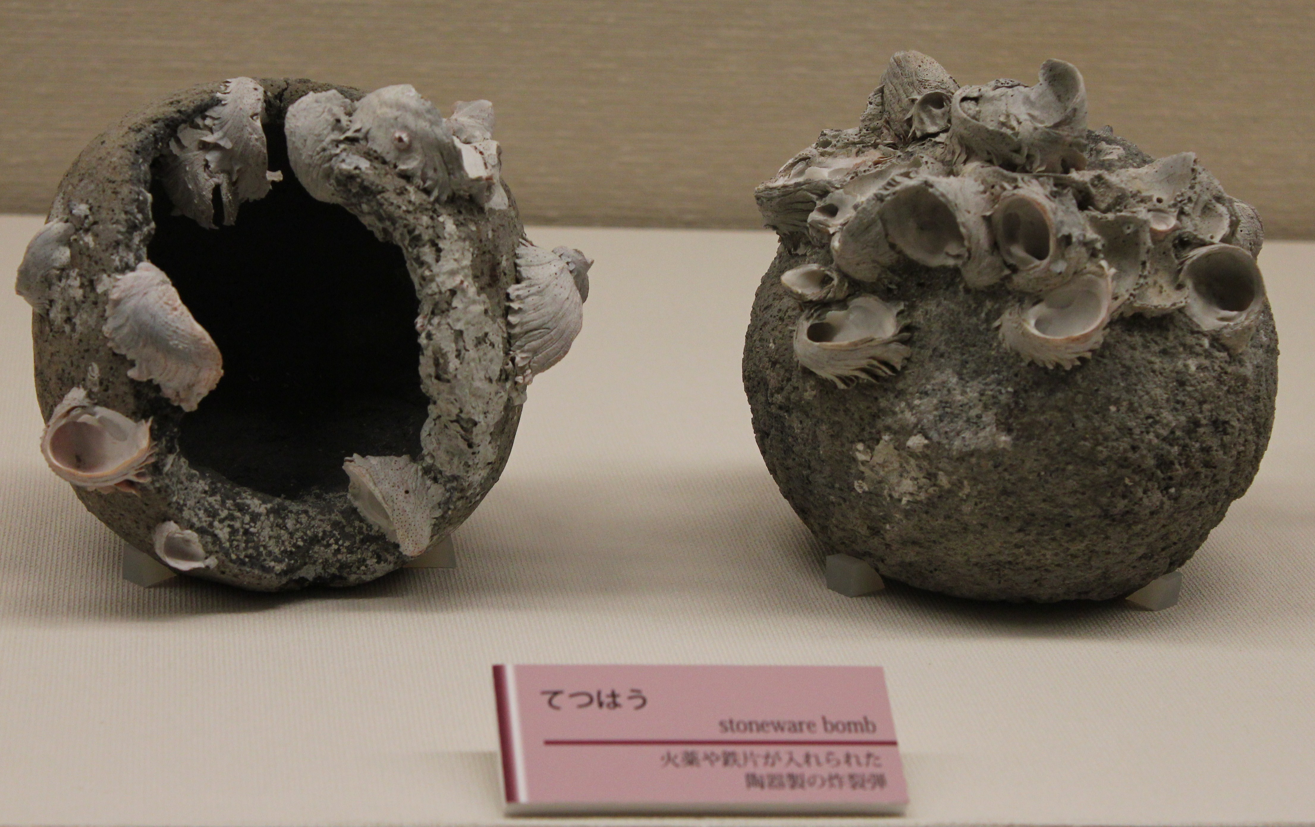 Ceramic grenades "tetsuhau" found in a Mongolian shipwreck sunk off the Japanese Takashima Island in 1274. The ship was part of the armada of Kublai Khan attempting to conquer Japan. Balanidae (Crustacea: Cirripedia) and lower side valve specimens of Chamidae (Bivalvia) colonized the surface of the objects.